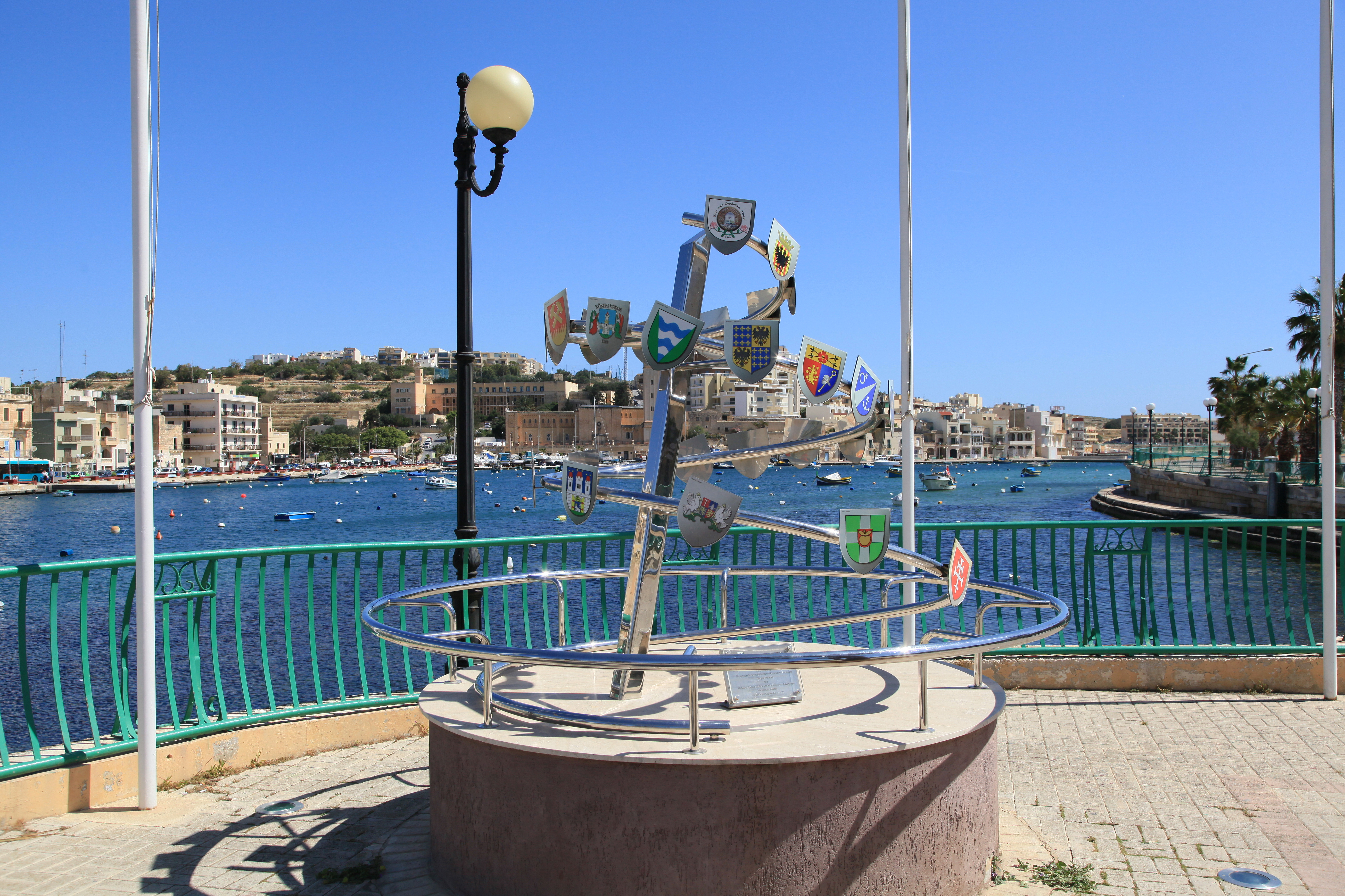 Town twinning memorial at Triq Ix-Xatt in Marsaskala, Malta